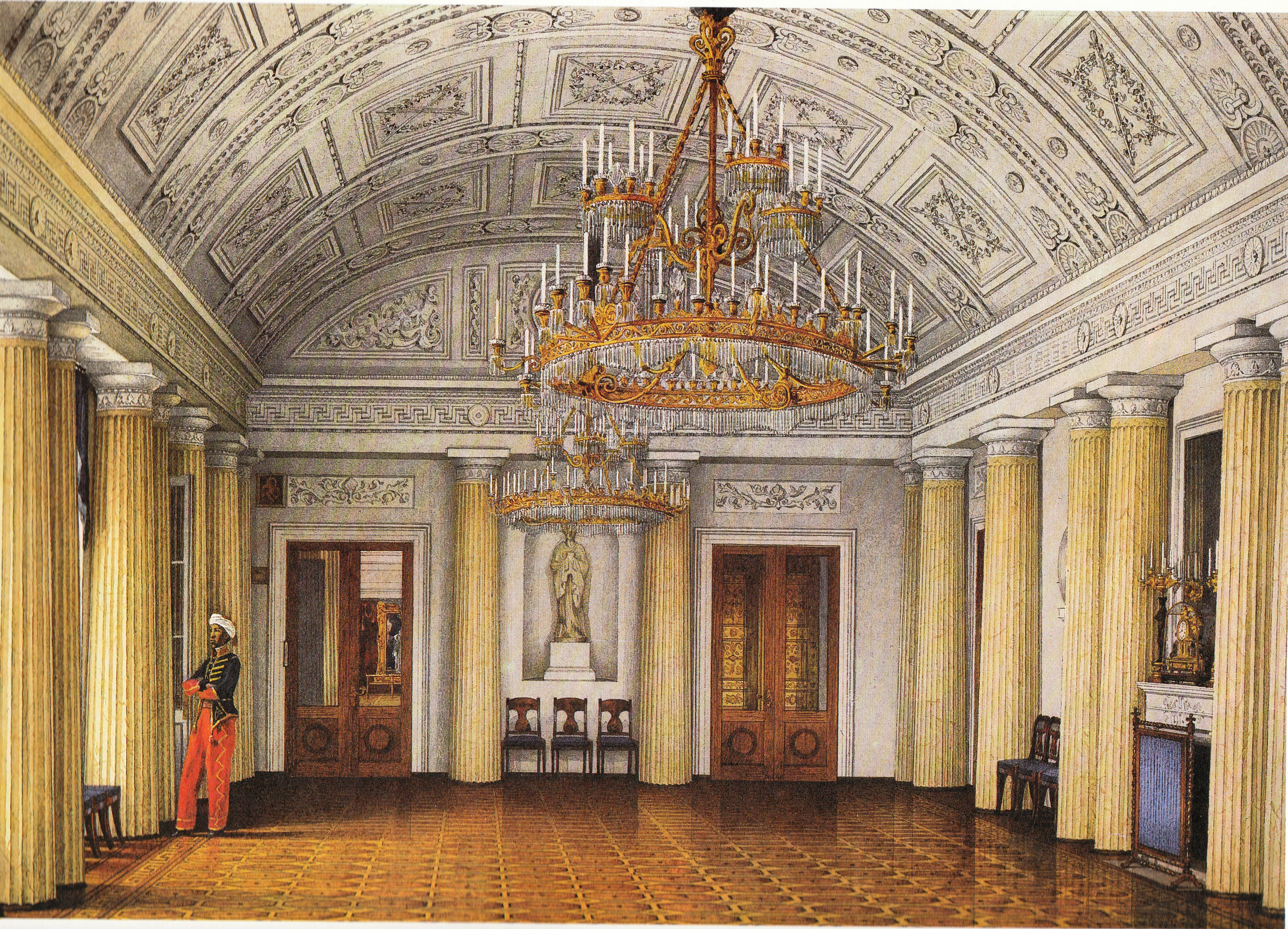 Interiors of the Winter Palace. Great (Arab) Dining room